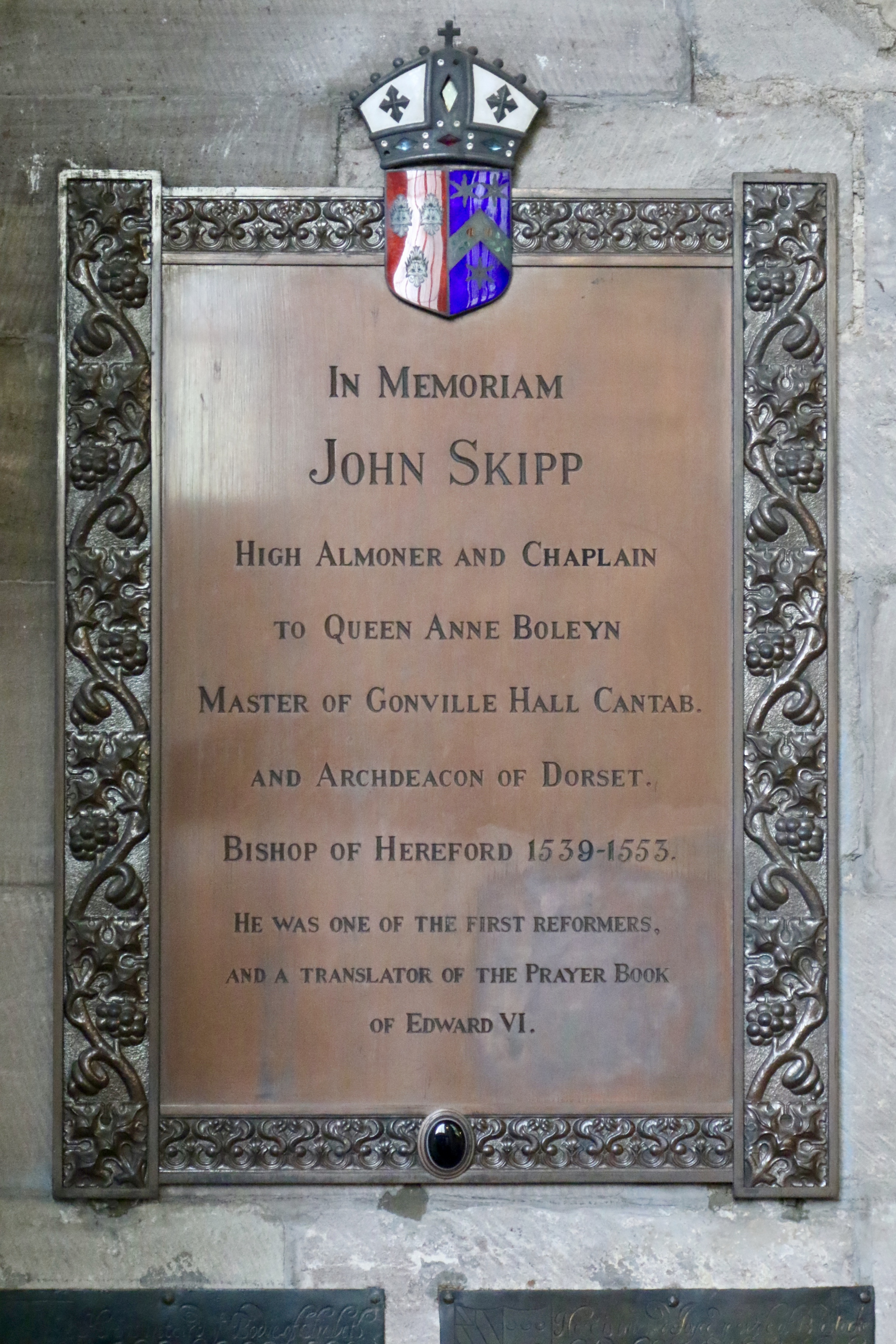 In Memoriam John Skipp High Almoner and Chaplain to Queen Anne Boleyn Master of Gonville Hall, Cantab and Archdeacon of Dorset Bishop of Hereford 1539-1553. He was one of the first reformers and a translator of the Prayer Book of Edward VI.